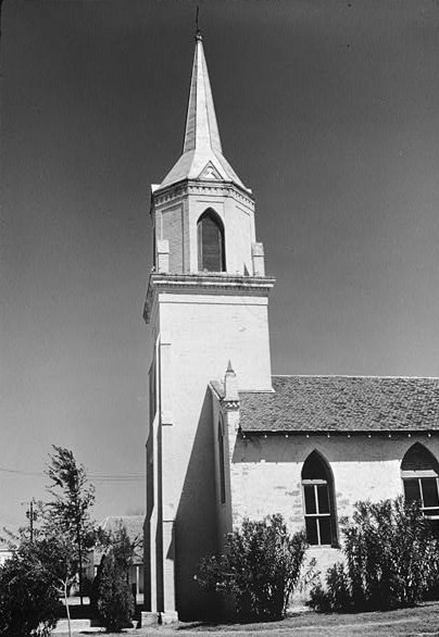 Church of our Lady of Refuge of Sinners — North end of Main Plaza on Estrella Street, Roma Creek (Starr County, Texas) (cropped). Listed on the national Register of Historic Places. Historic American Buildings Survey—HABS image.